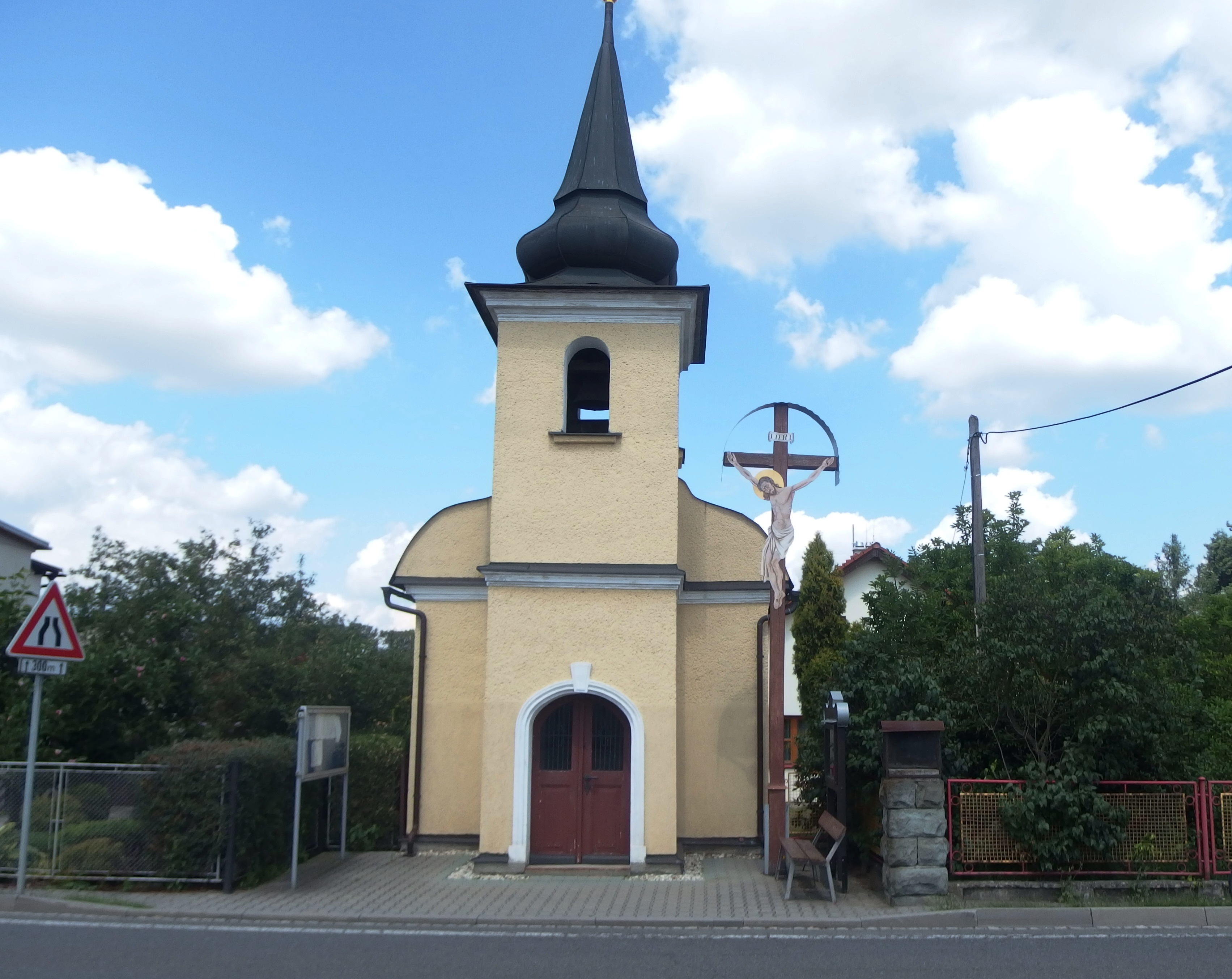 Paskov, Frýdek-Místek District, Czech Republic, part Oprechtice.